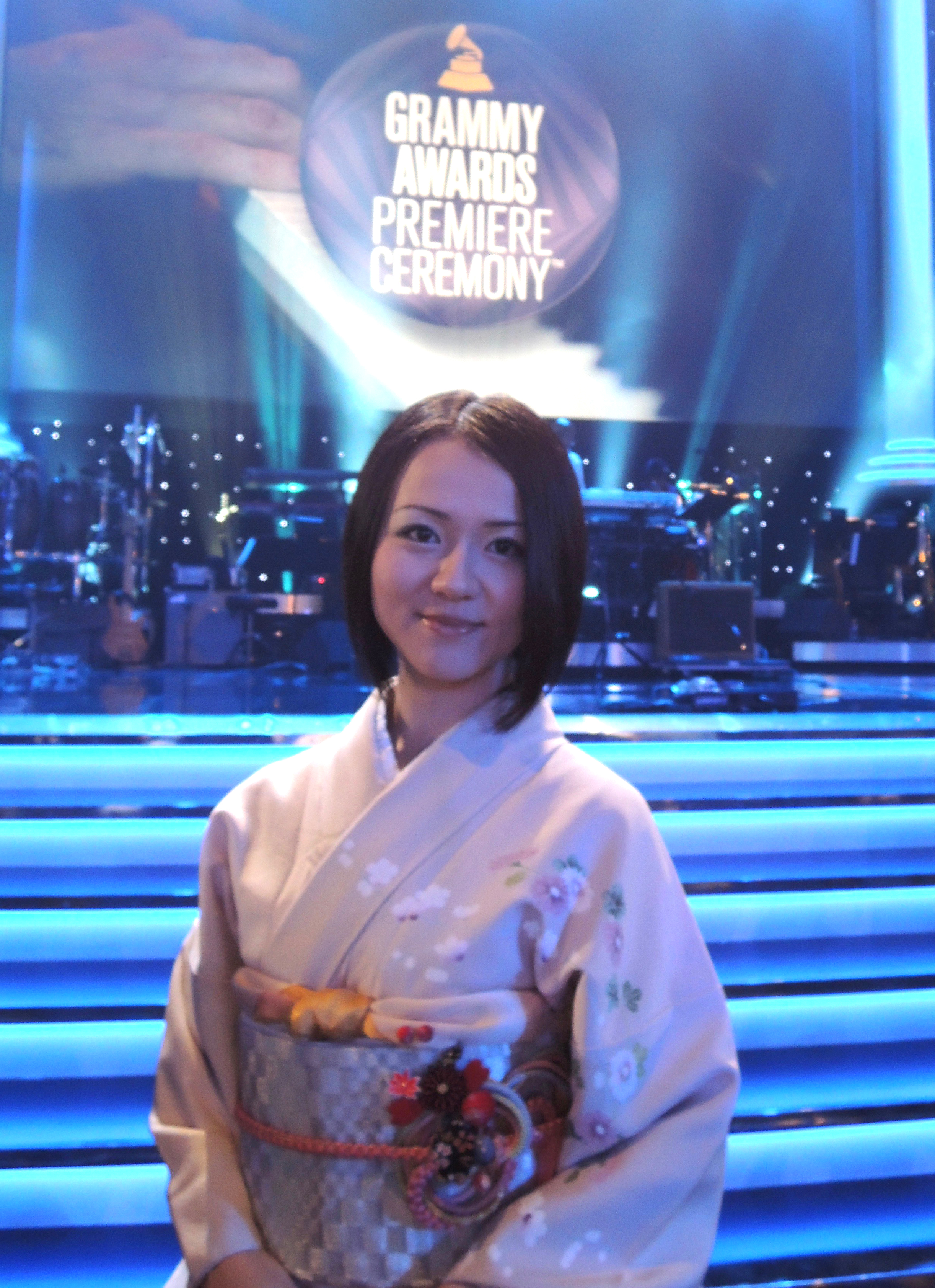 Hiroko Tsuji at 57th Grammy Awards Ceremony